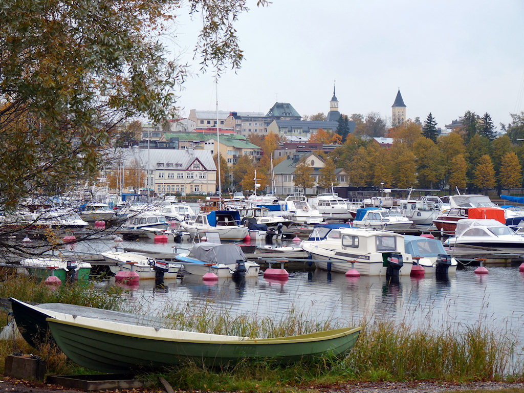 Picture taken in Lappeenranta harbour facing downtown (uphill..) on October 1st, 2008. It is the middle of autumn, and some boats are still floating on water before they are lifted for winter storage.